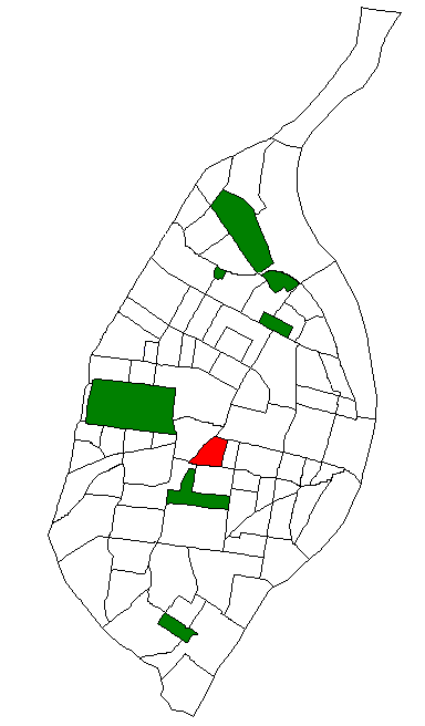 Map of St. Louis Neighborhood #28